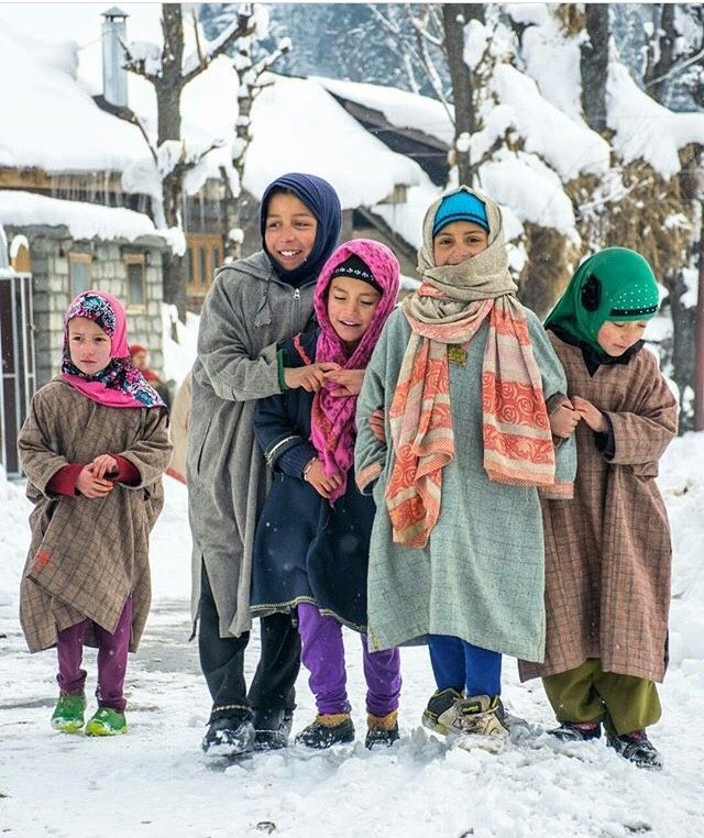 Pheran is a long gown type cloth generally worn by kashmiris during winter.